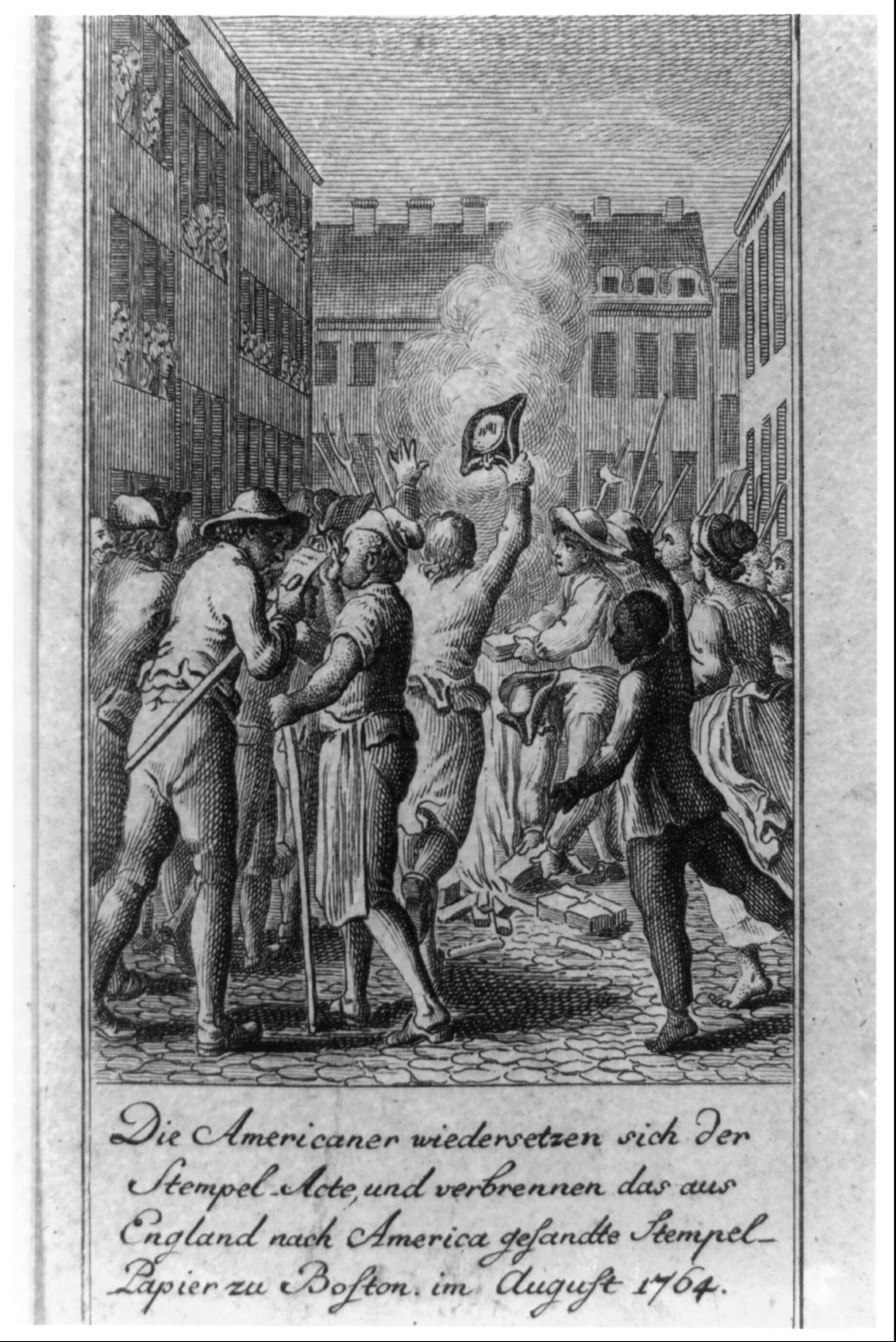 The American defy the stamp act and burn the stamp paper in Boston on August 1764, brought from England to America. Engraving shows citizens in Boston burning proclamations from England pertaining to the stamp act of 1765. CREATED/PUBLISHED: 1784. ARTIST: Daniel Chodowiecki. ENGRAVER: Daniel Berger. REPOSITORY: Library of Congress Prints and Photographs Division Washington, D.C.